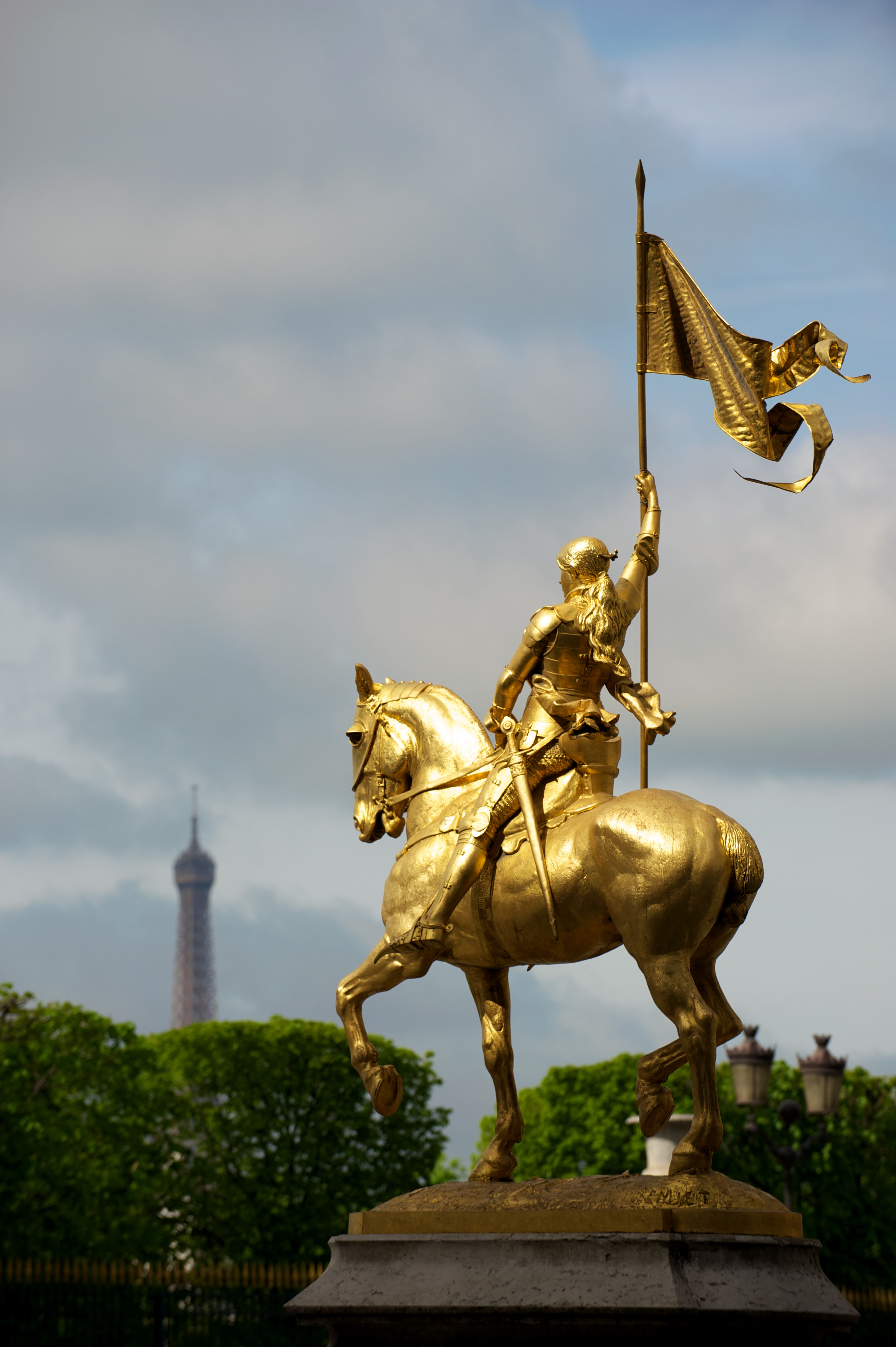 Statue of Jeanne d'Arc in Paris, Rue de Rivoli